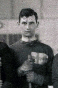 Wilhelm Arwe with the swedish national ice hockey team at the 1920 Summer Olympics in Antwerp, Belgium. The picture is a crop out of a larger team photo taken inside the ice rink Palais de Glace d'Anvers. The ice hockey tournament at the 1920 Summer Olympics took place between April 23 and April 29.